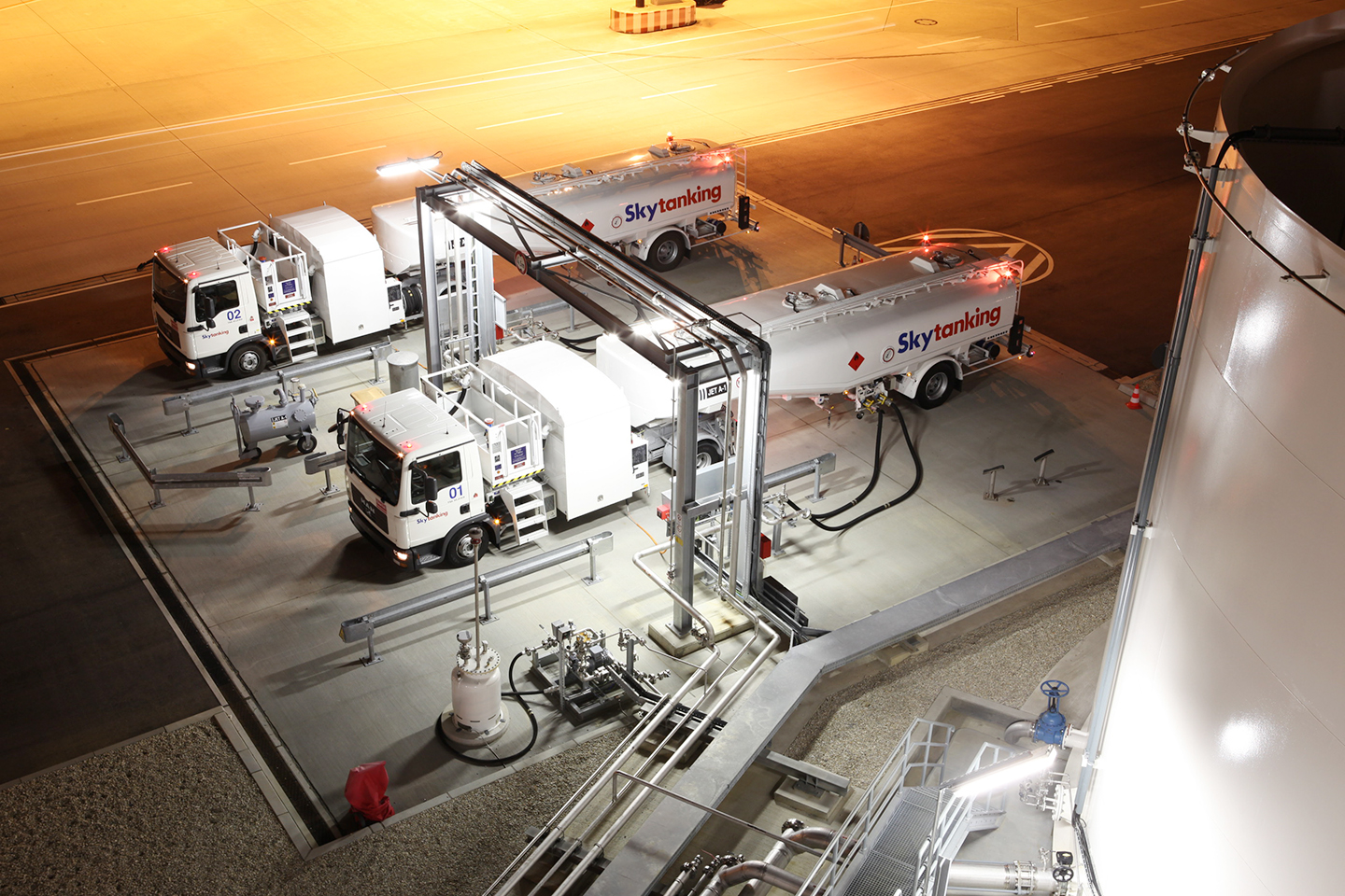 Tank-Fuel-Farm-at-Night-and-Trucks